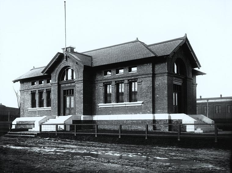 Photograph, Bank of Montreal branch, Davidson Street, Angus Shops, Montreal, QC, about 1906, Wm. Notman & Son, Silver salts on glass - Gelatin dry plate process - 20 x 25 cm